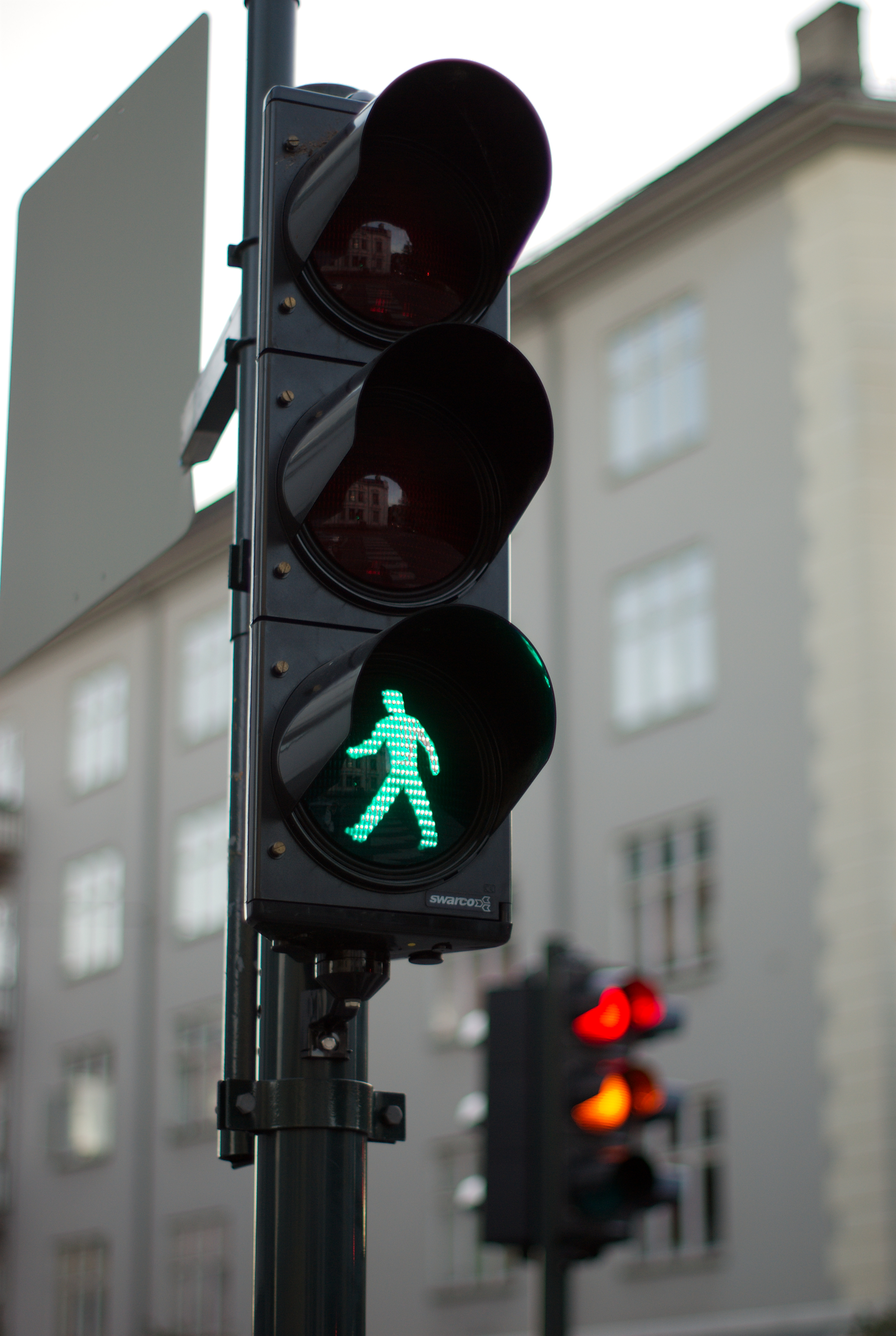 Stop sign in Oscar gate in Oslo.